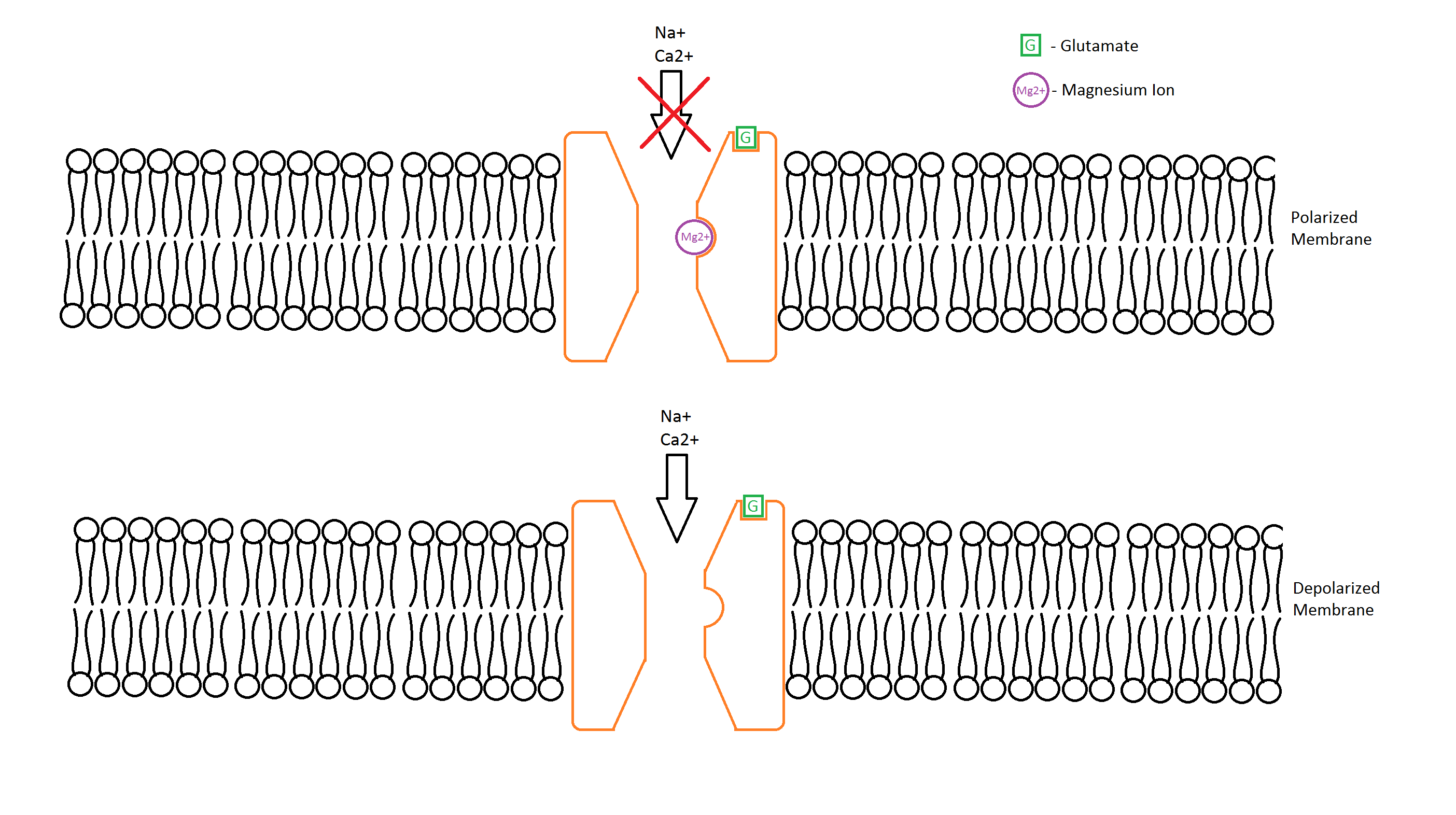 This is how an NMDA Receptor functions in a silent synapse.